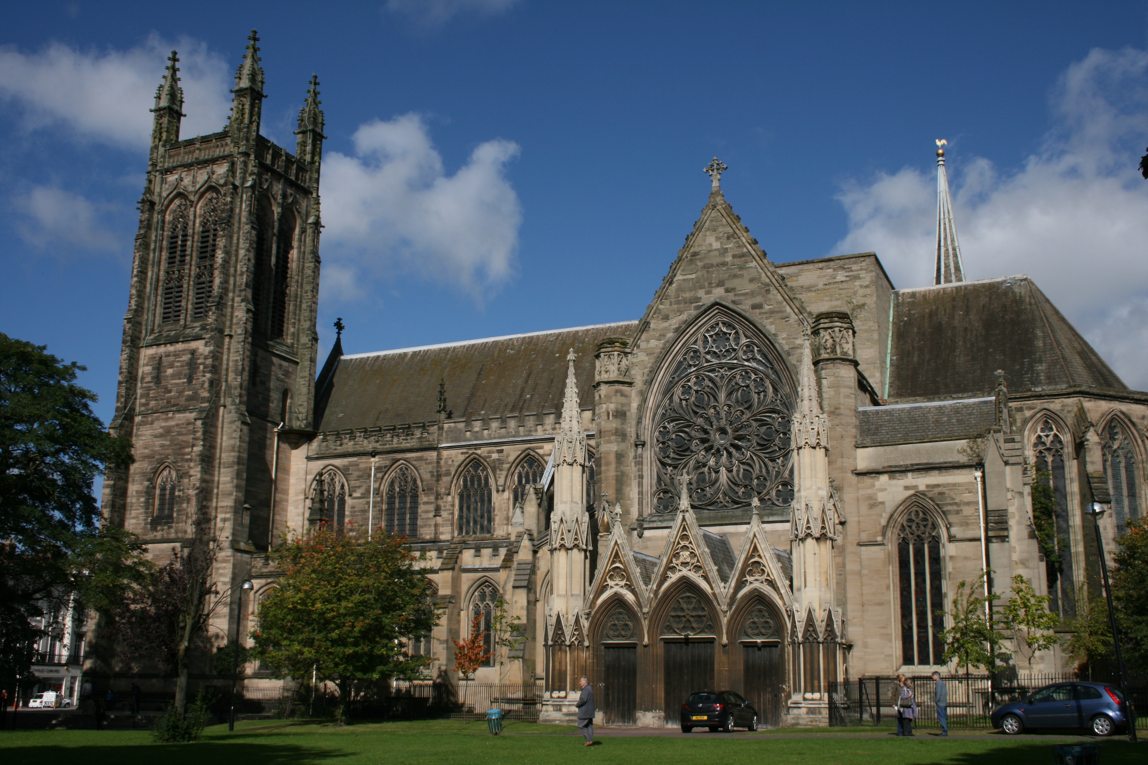 Photo of All Saints' Church, Leamington Spa, 2012